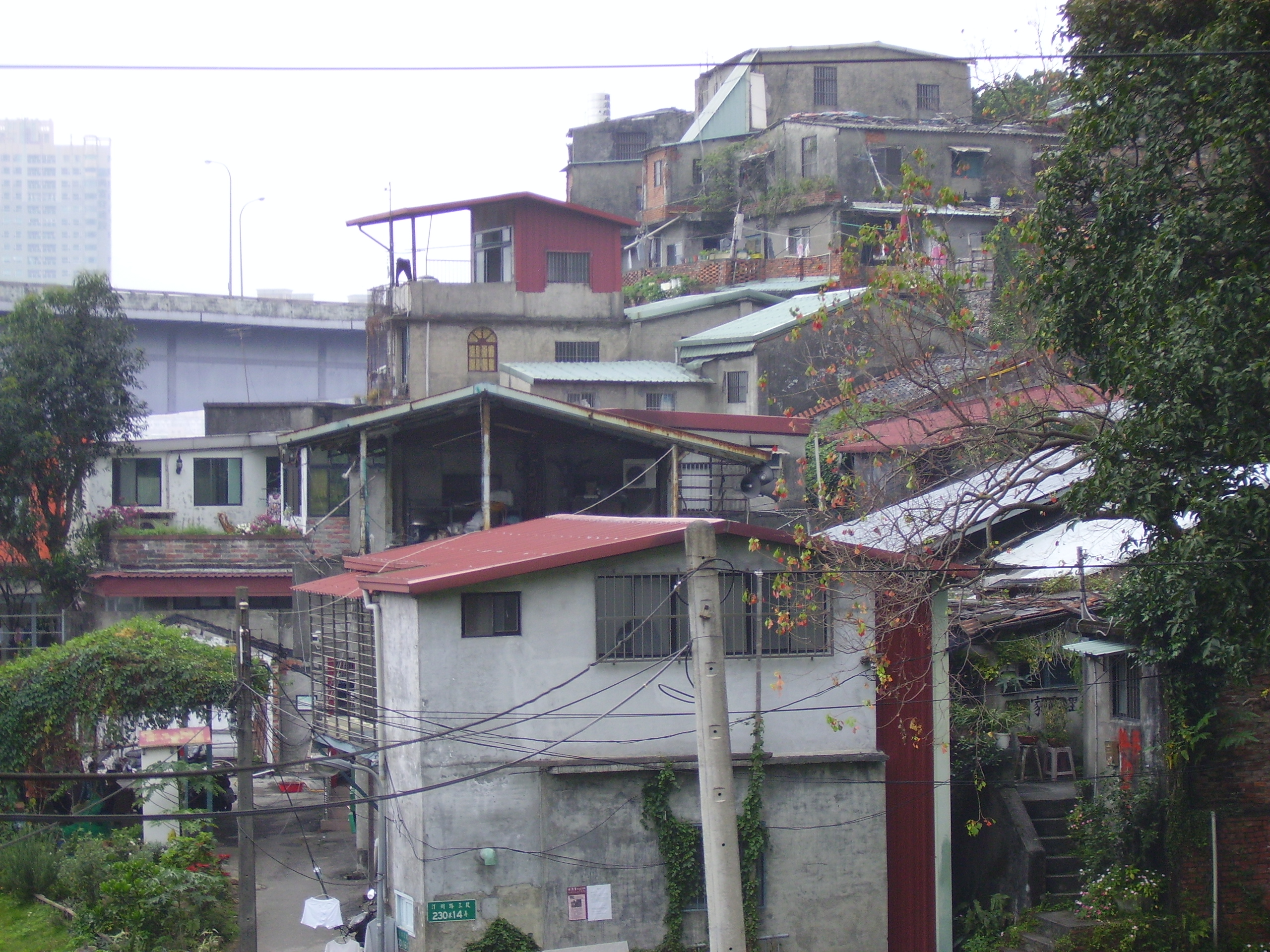 photo by winertai treasure hill,Taipei 2006/02/16 台北